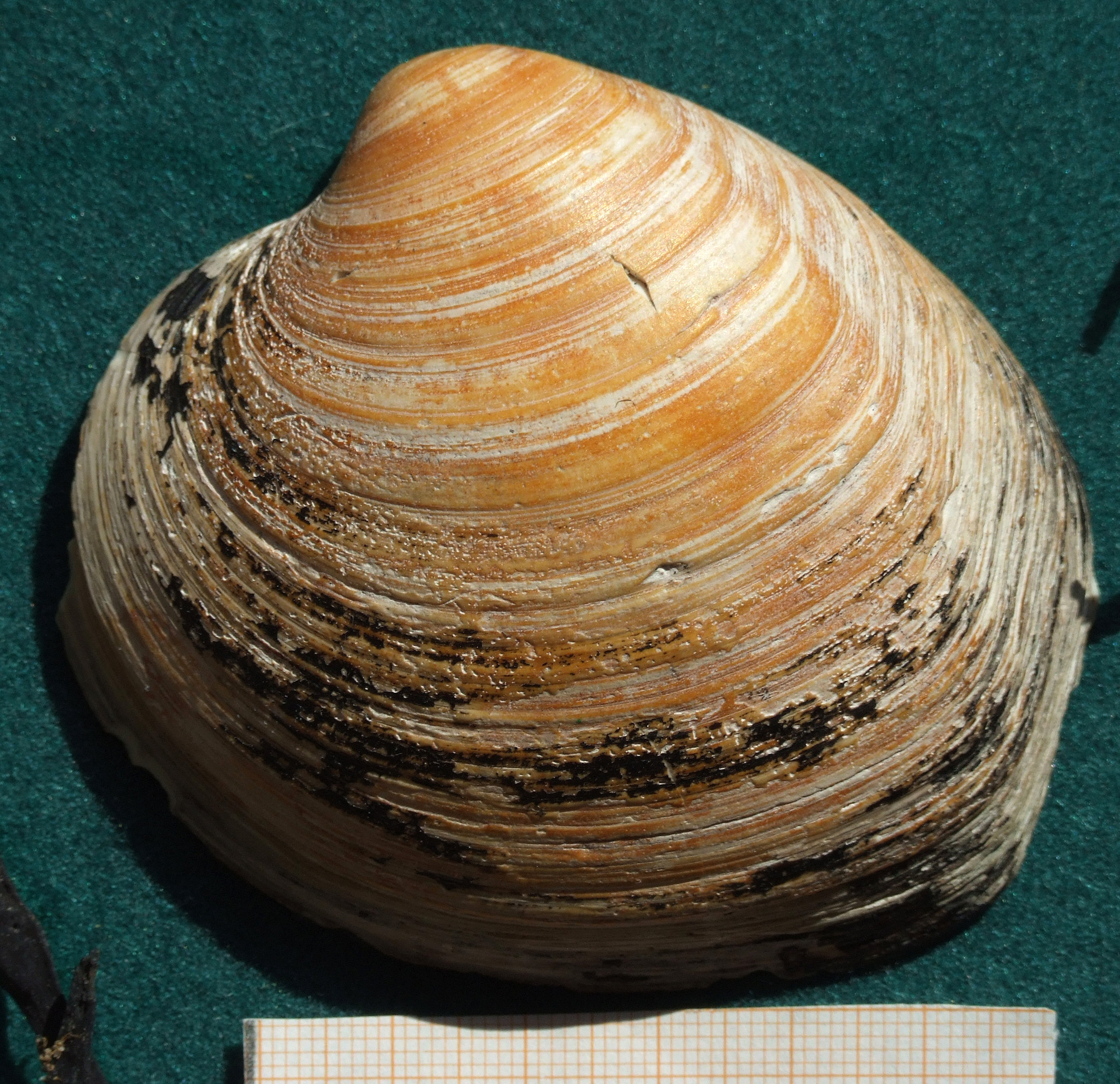 Shell from Sylt, Germany.